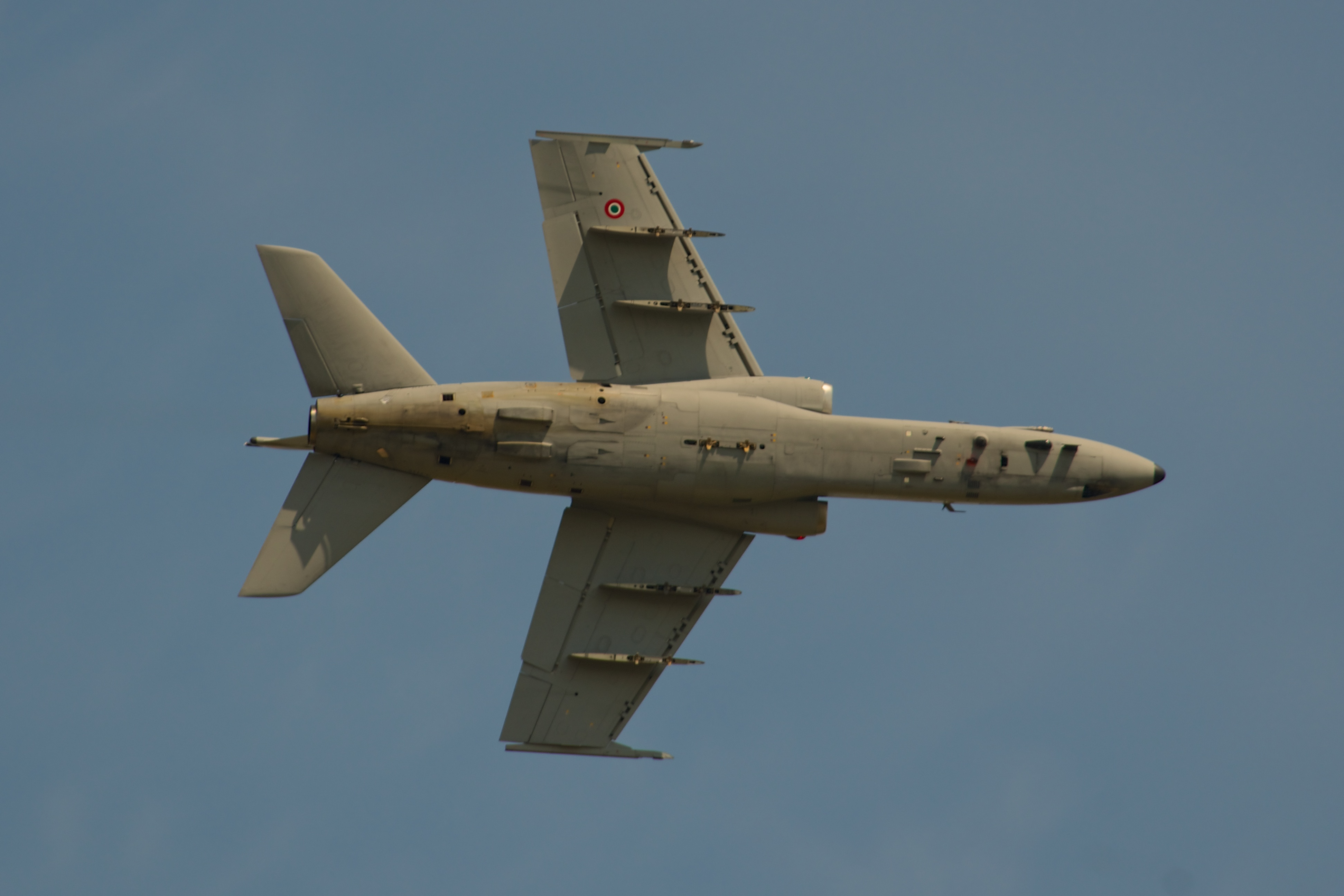 RIAT 2014